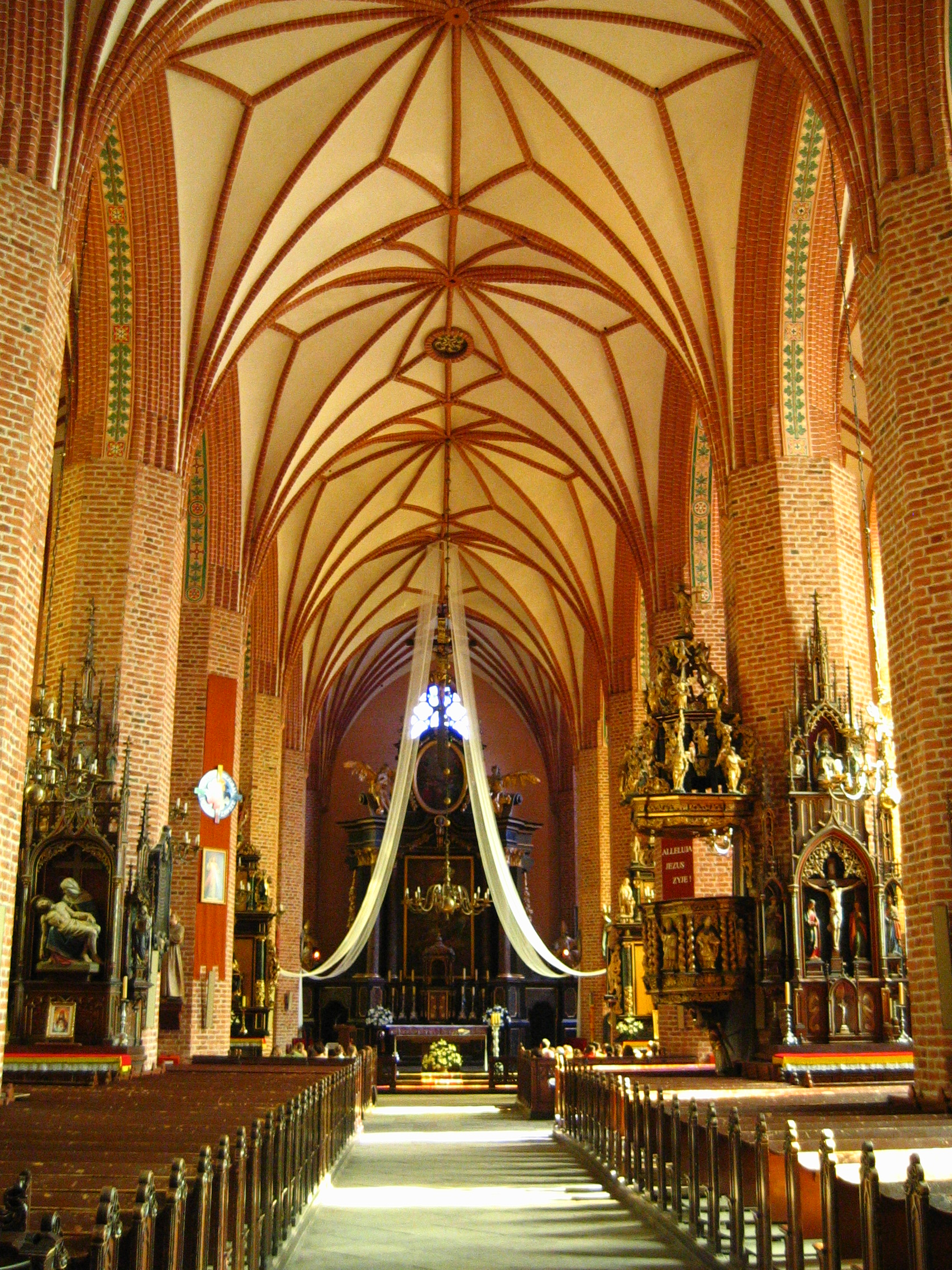 Collegiate church of the Holy Saviour and All Saints in Dobre Miasto, end of 14th century